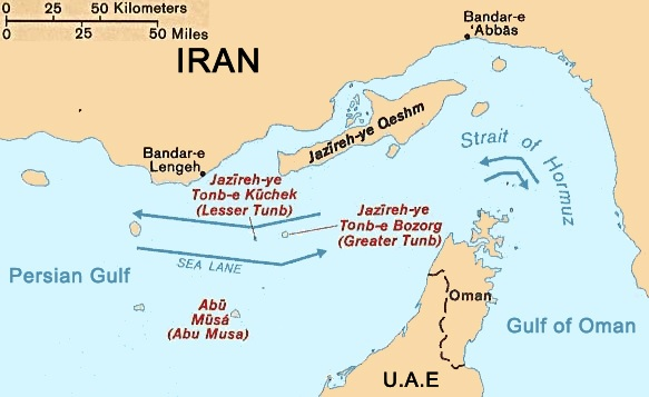 Map of Strait of Hormuz (English)